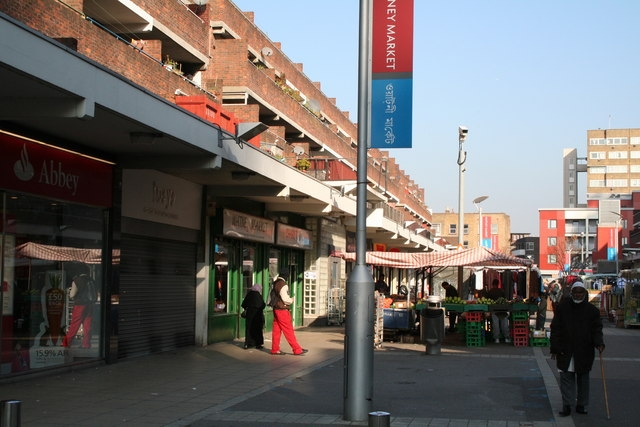 Watney Market, Shadwell, East London A small street market occupying a pedestrianised part of Watney Street